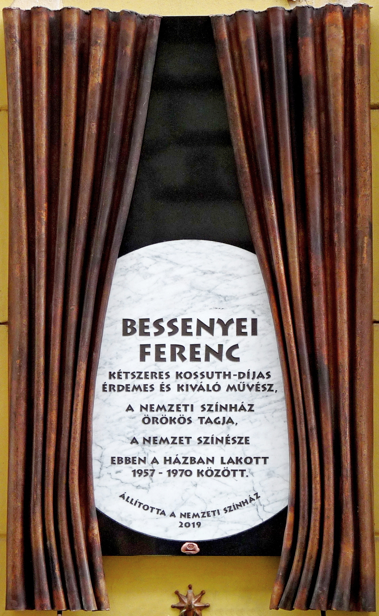 Mr. Ferenc Bessenyei (1919–2004) was a two-time Kossuth Prize winner Excellent and Meritorious Hungarian Artist, ”Actor of the Nation”. This plate sculpted by Mr. István Madarassy has been installed on the front of the building where the artist lived between 1957 and 1970 and unveiled on February 10, 2019 on the occasion of his 100th birthday. (Budapest, District V, Kálmán Imre Street Nr 10)